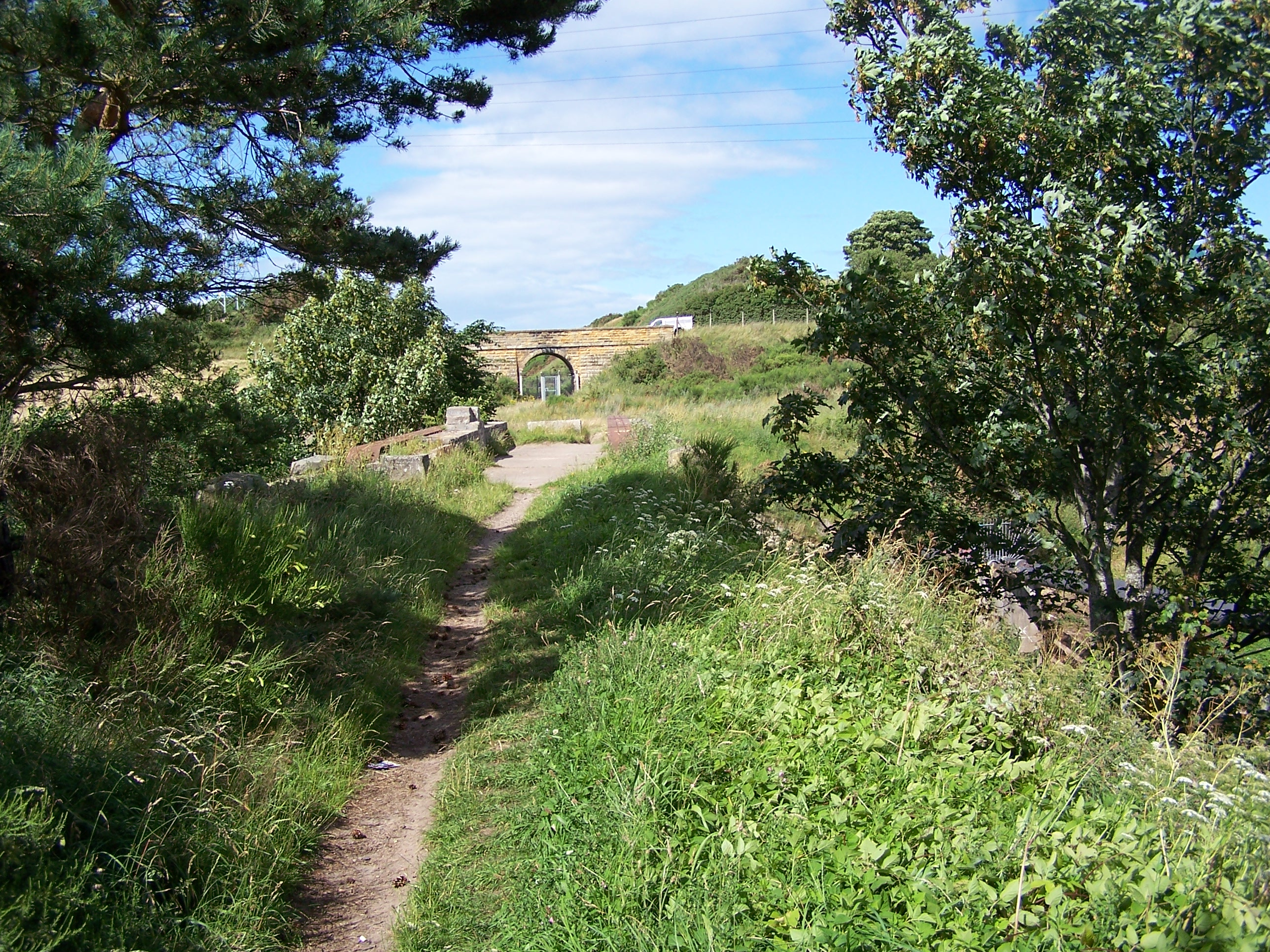 Route of the old Morayshire Railway. Bareflathills - The river bridge in the foreground, the road bridge and the cutting beyond.